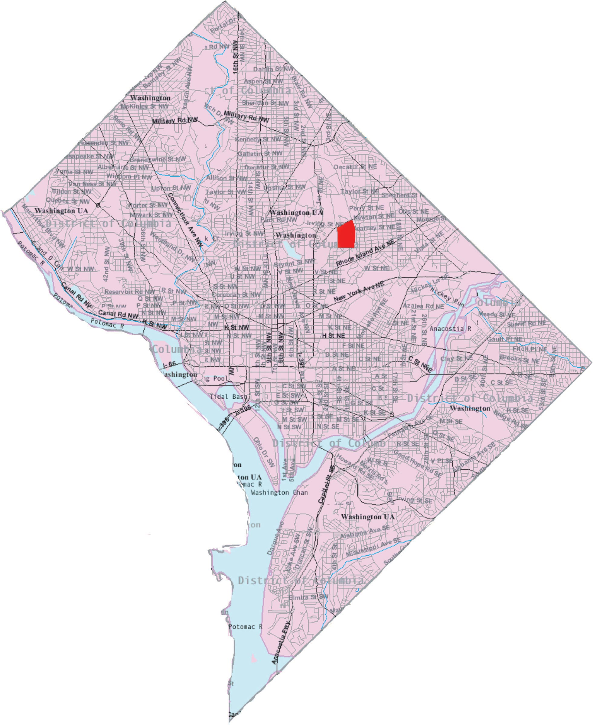 This image is a modified version of a self-generated reference map from the U.S. Census Bureau's American Factfinder at by Wikipedia user Msclguru.